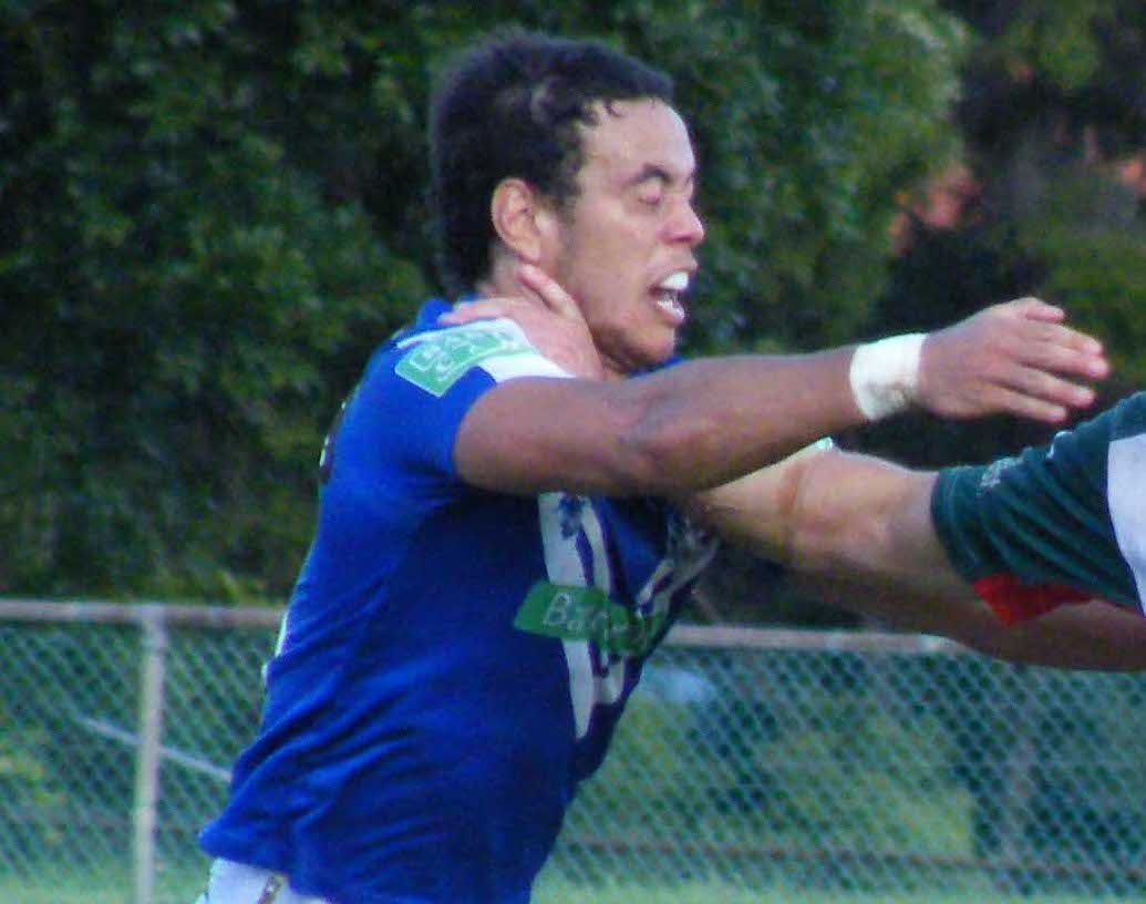 Danny Williams of Bankstown City Bulls fends off Isaac John of the Vulcans